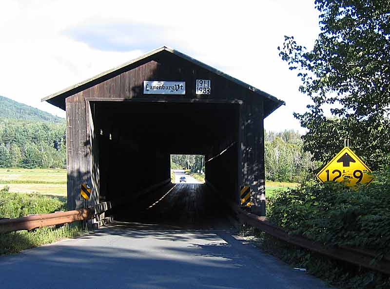 This is one portal to the Mount Orne Covered Bridge between Lancaster, New Hampshire and Lunenburg, Vermont.